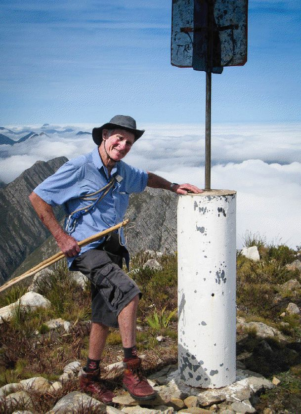 Local mountaineer Mervyn Prior (85 years) at summit beacon on Formosa Peak, Tsitsikamma Range, Southern Cape, South Africa